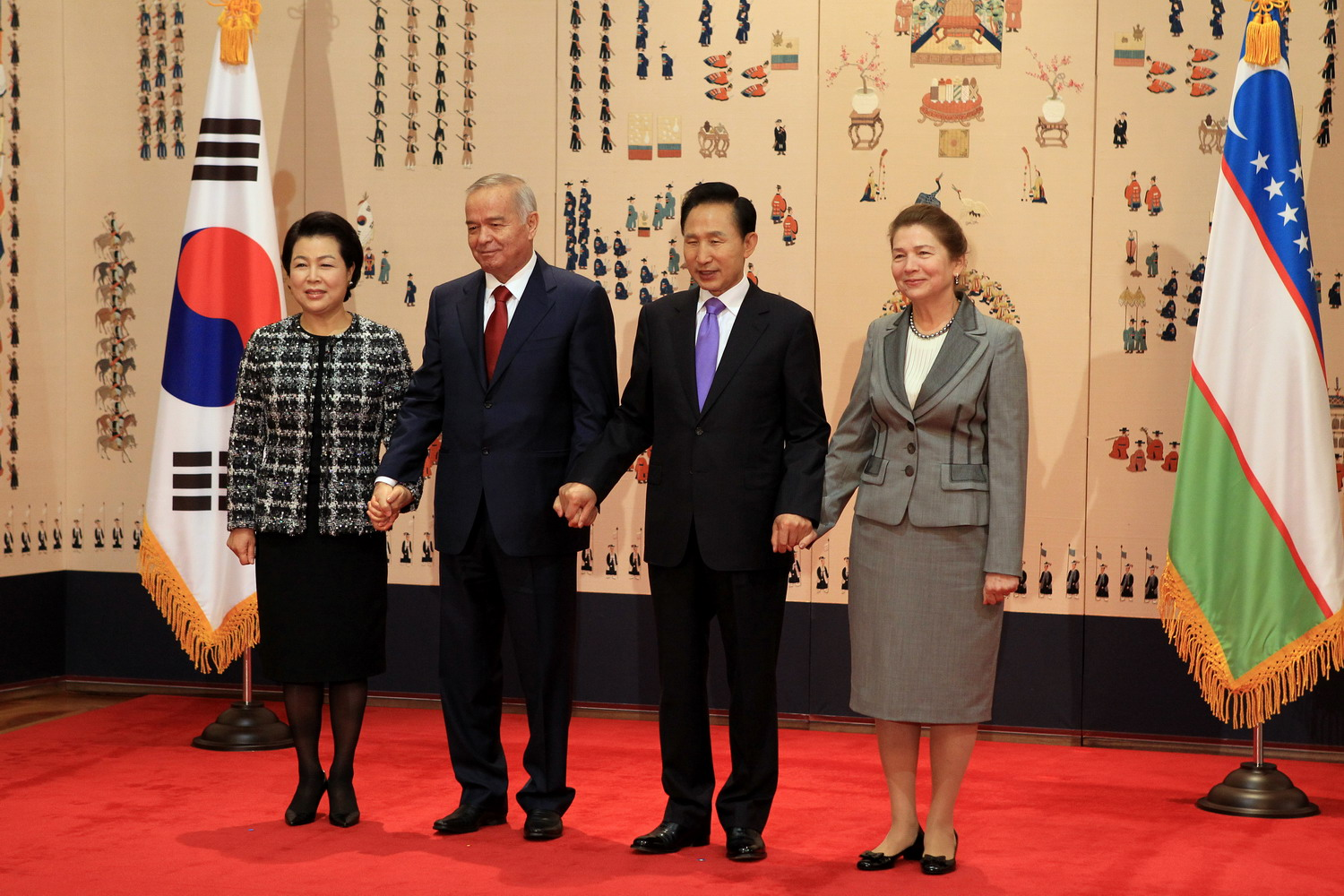 President Lee Myung-bak and visiting Uzbek President Islam Karimov held a summit at Lee's office on Feb. 11, 2010. Show in photo, from left to right: South Korea First Lady Kim Yoon-ok, Uzbekistan President Islam Karimov, South Korea President Lee Myung-bak and Uzbekistan First Lady Tatyana Karimova.